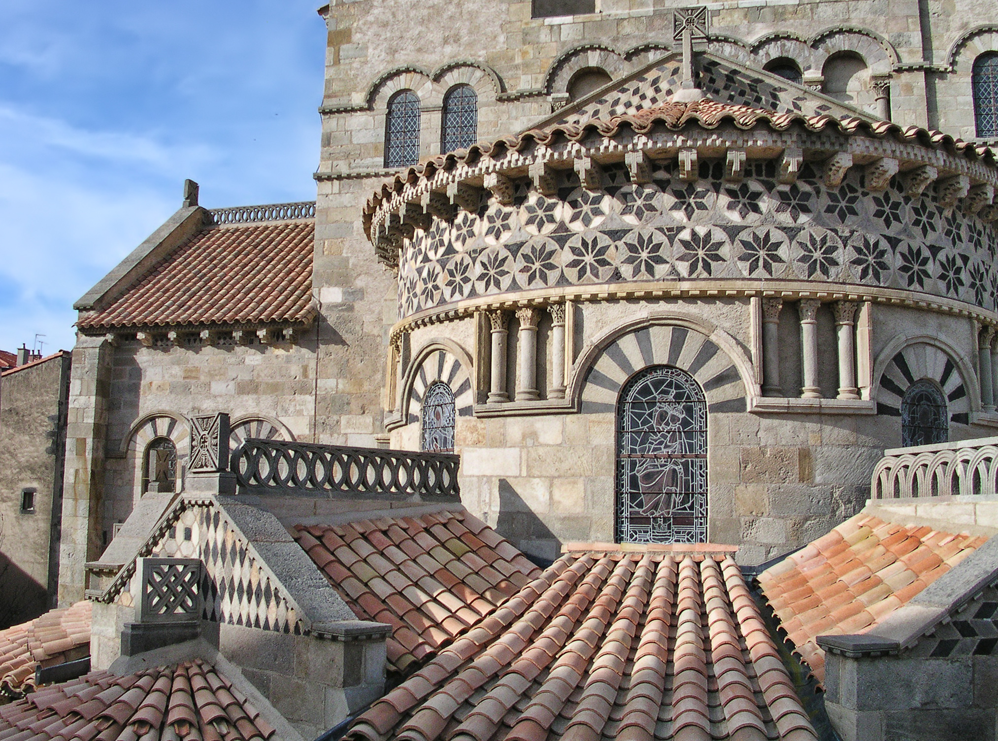 Basilica Notre Dame du Port XIIth century (Clermont-Ferrand, Puy-de-Dôme, France